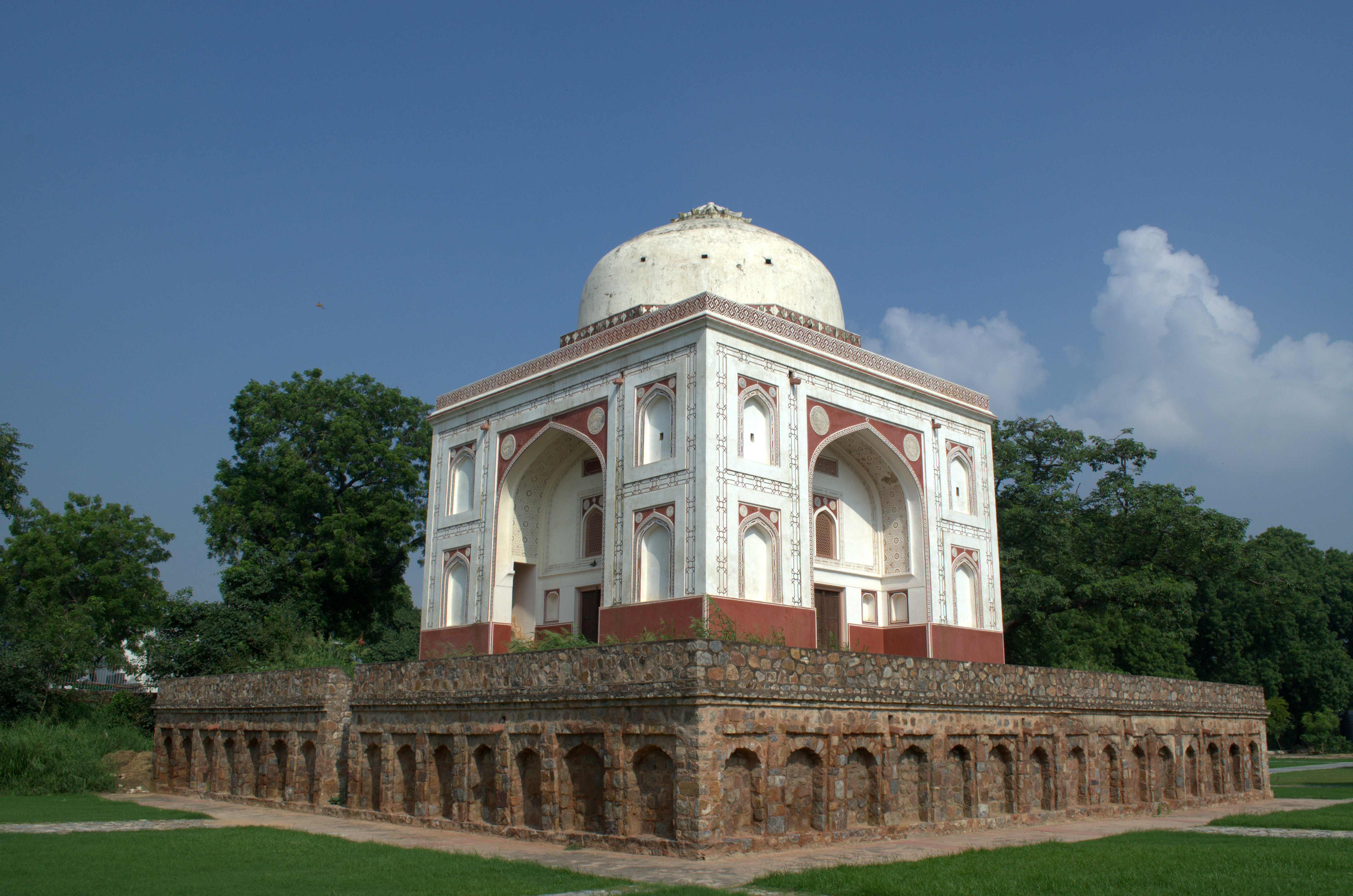 Lakhar wal Gumbad (Tomb)